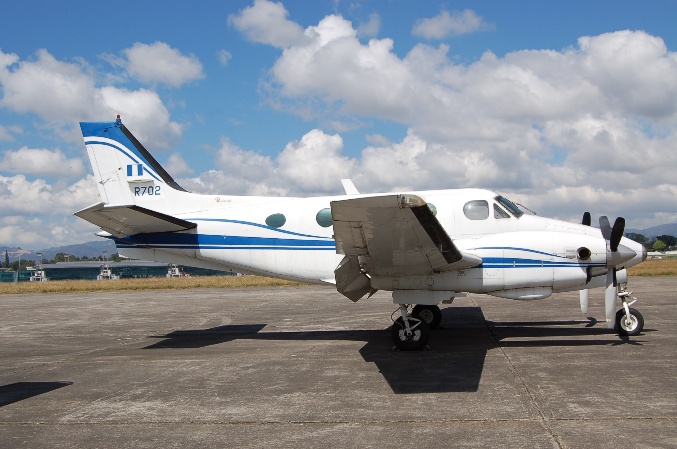 Beech A90 of Guatemalan Air Force at Guatemala City,Guatemala 01/03/11.